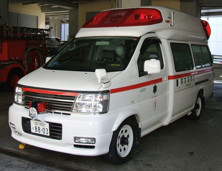 Nissan Paramedic.